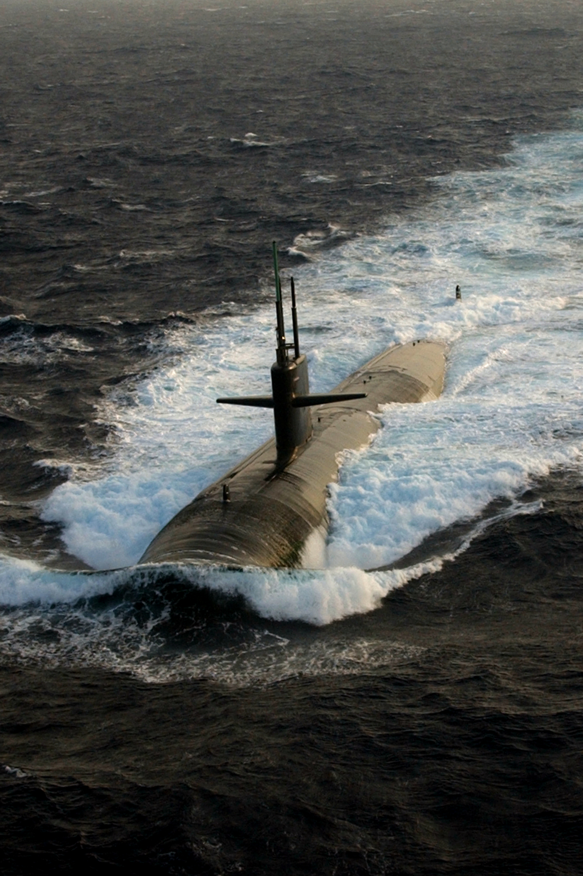 Atlantic Ocean (July 12, 2004) -- The Los Angeles-class submarine USS Albuquerque (SSN 706) surfaces in the Atlantic Ocean while participating in Majestic Eagle 2004. Majestic Eagle is a multinational exercise being conducted off the coast of Morocco. The exercise demonstrates the combined force capabilities and quick response times of the participating naval, air, undersea and surface warfare groups. Countries involved in the NATO led exercise include the United Kingdom, Morocco, France, Italy, Portugal, Spain, and Turkey.